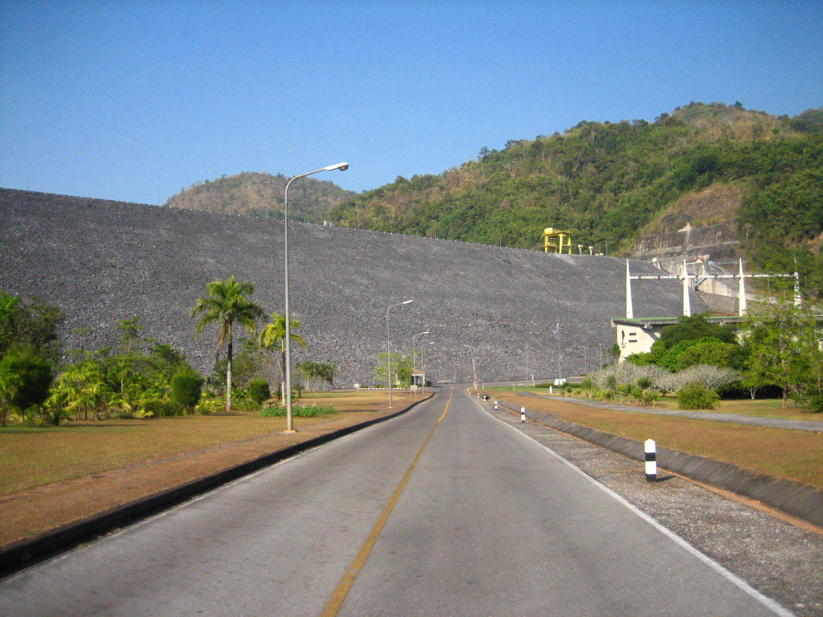 A picture of The Vajiralongkorn Dam in Thong Pha Phum district in Kanchanaburi province, Thailand. Picture was taken with a Canon Power Shot SD450 Digital Elph camera.